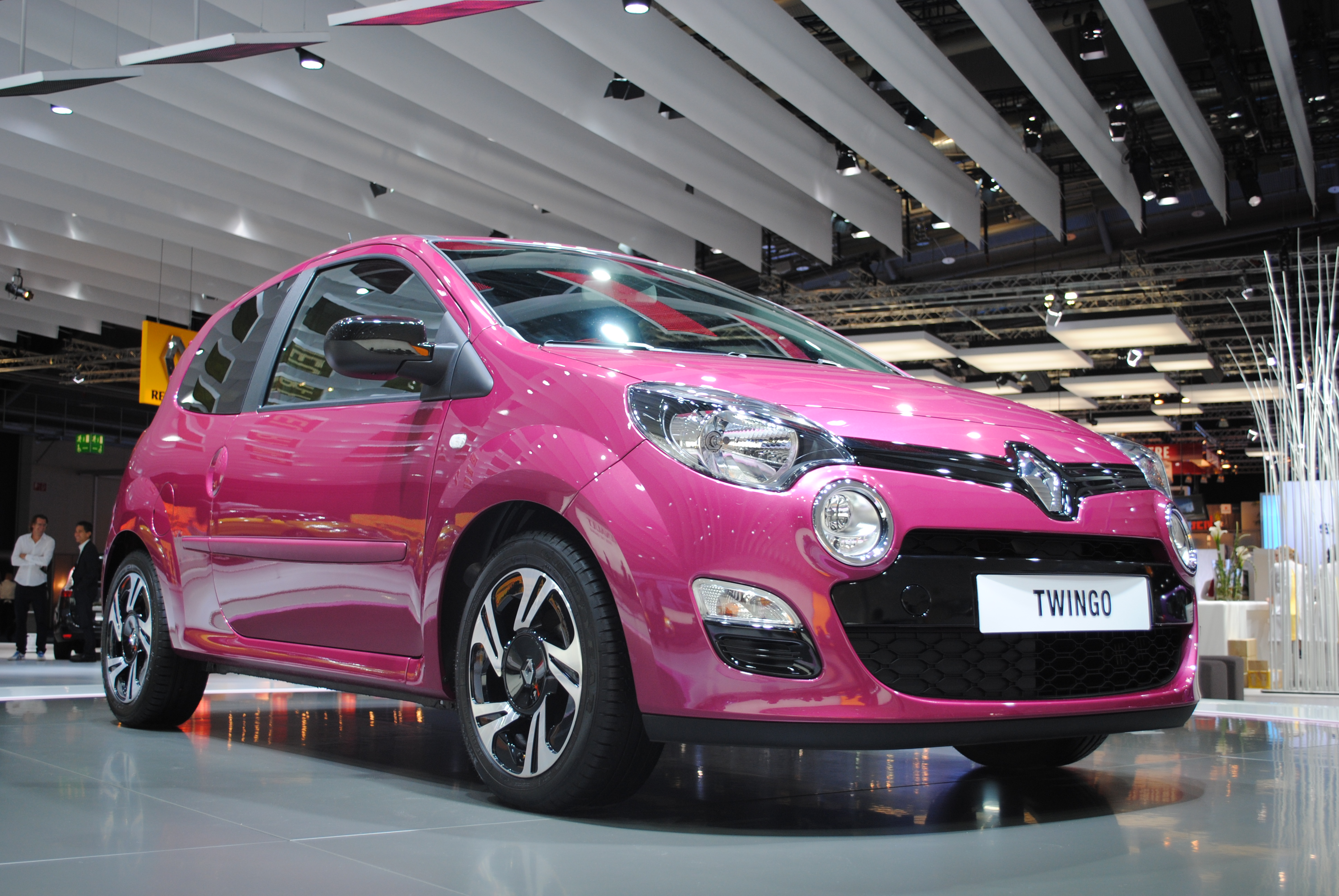 More photos and info